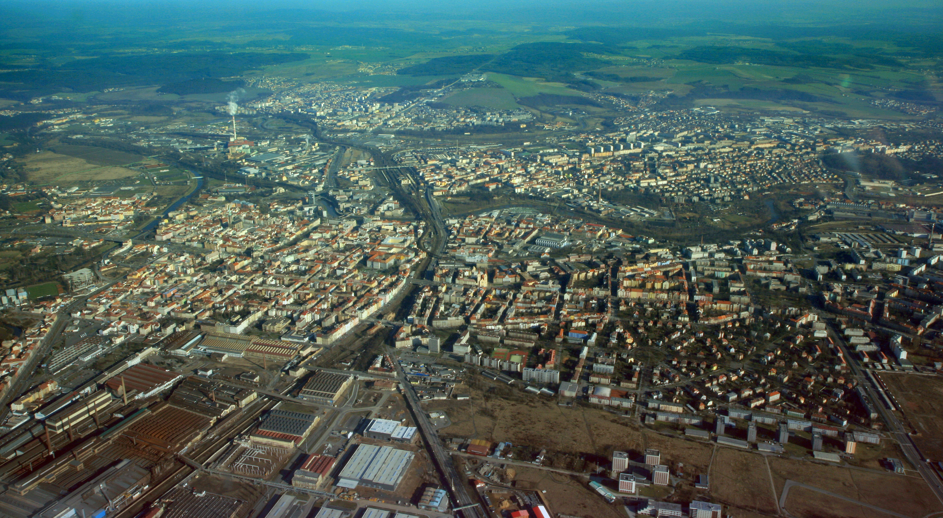 Aerial view of Pilsen from the west-southwest. In the foreground the Škoda Works, beyond it in the left the city centre around St. Bartholomew Catherdral. Confluence of the Mže and the Radbuza is located just on the opposite side of the centre, in front of the smoking chimney. Railway line passing through the city with the Main Station (on SE edge of the centre) are also well visible. Suburbs of Bory (foreground) and Slovany (background) cover the right side of the image.